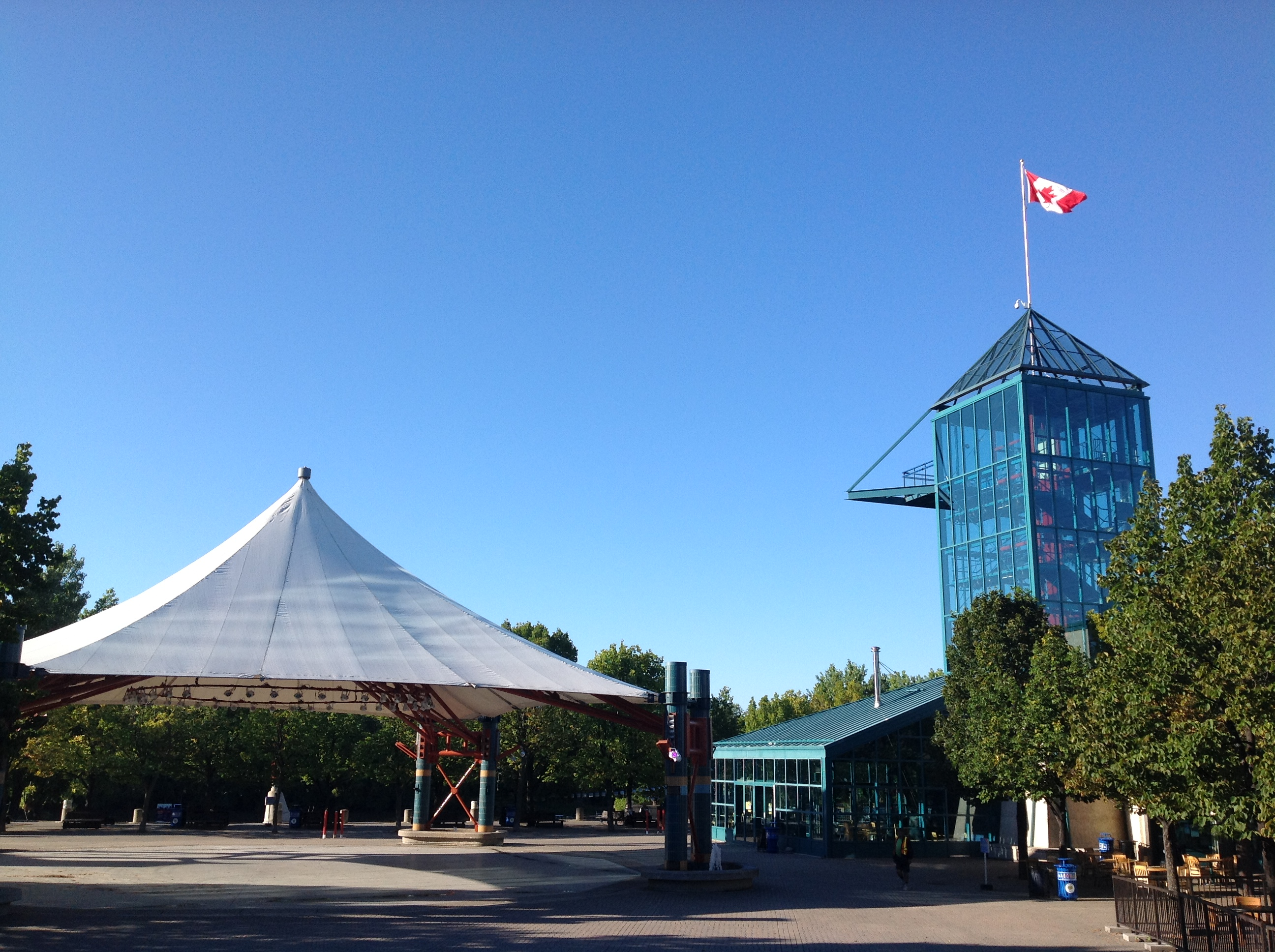 The Forks Market Tower, Winnipeg, Manitoba, Canada